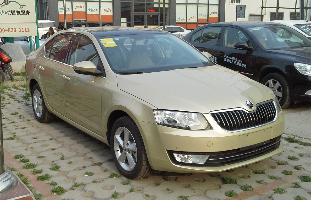 Škoda Octavia III photographed in Beijing, China.